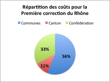 Répartition des coûts pour la Première correction du Rhône